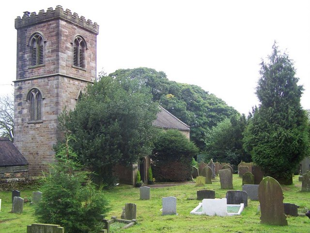 St Luke's parish church, Onecote, Staffordshire, seen from the southwest